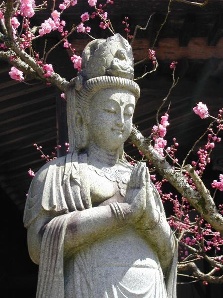 Statue of Guan Yin in the courtyard of Daien-in Temple, Mount Koya, Japan. Taken by User:Jpatokal in April 2004.